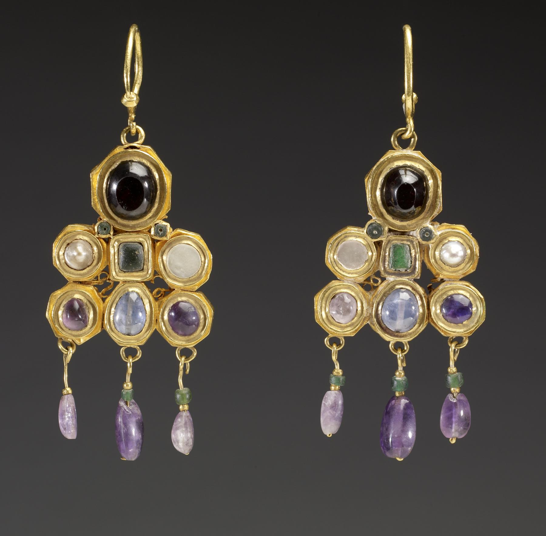 These dramatic, colorful earrings were most likely made in Constantinople, perhaps as an imperial gift to a Visigothic ruler of medieval Spain, where the earrings were found. The Visigoths, a migratory group that ultimately settled in Spain, had by the 6th century established trade and diplomatic contacts with the Byzantine court, whose jewelry they much admired.